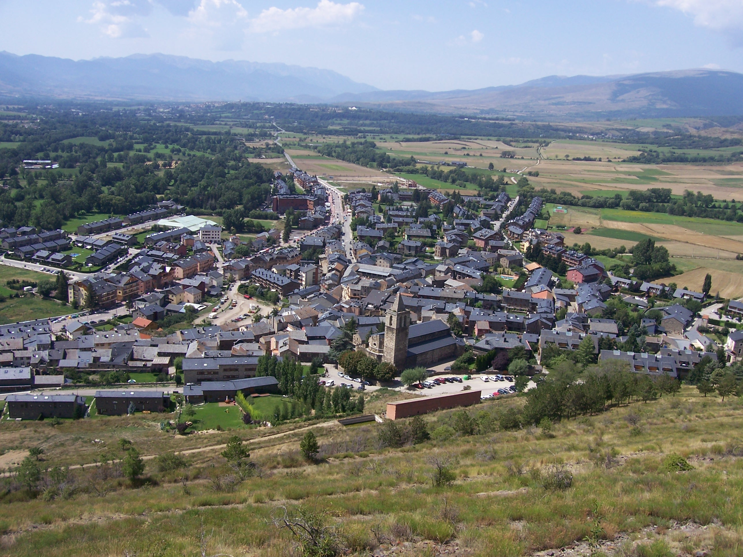 General view of Llívia (Cerdanya, Catalonia, Spain) taken from the Turó del Castell.